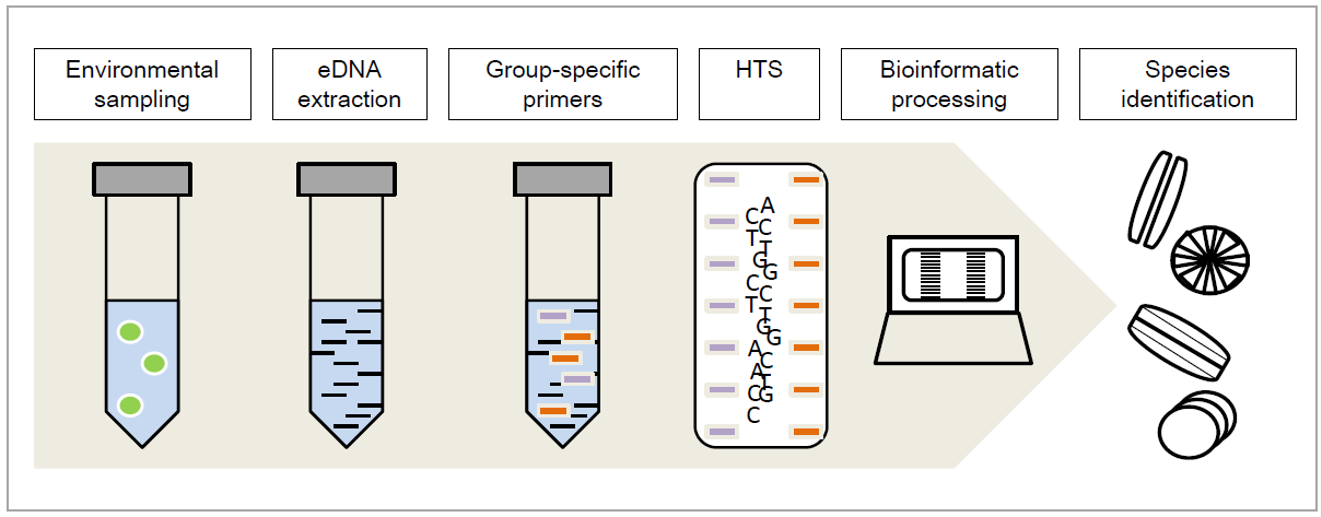 diatom metabarcoding flowchart